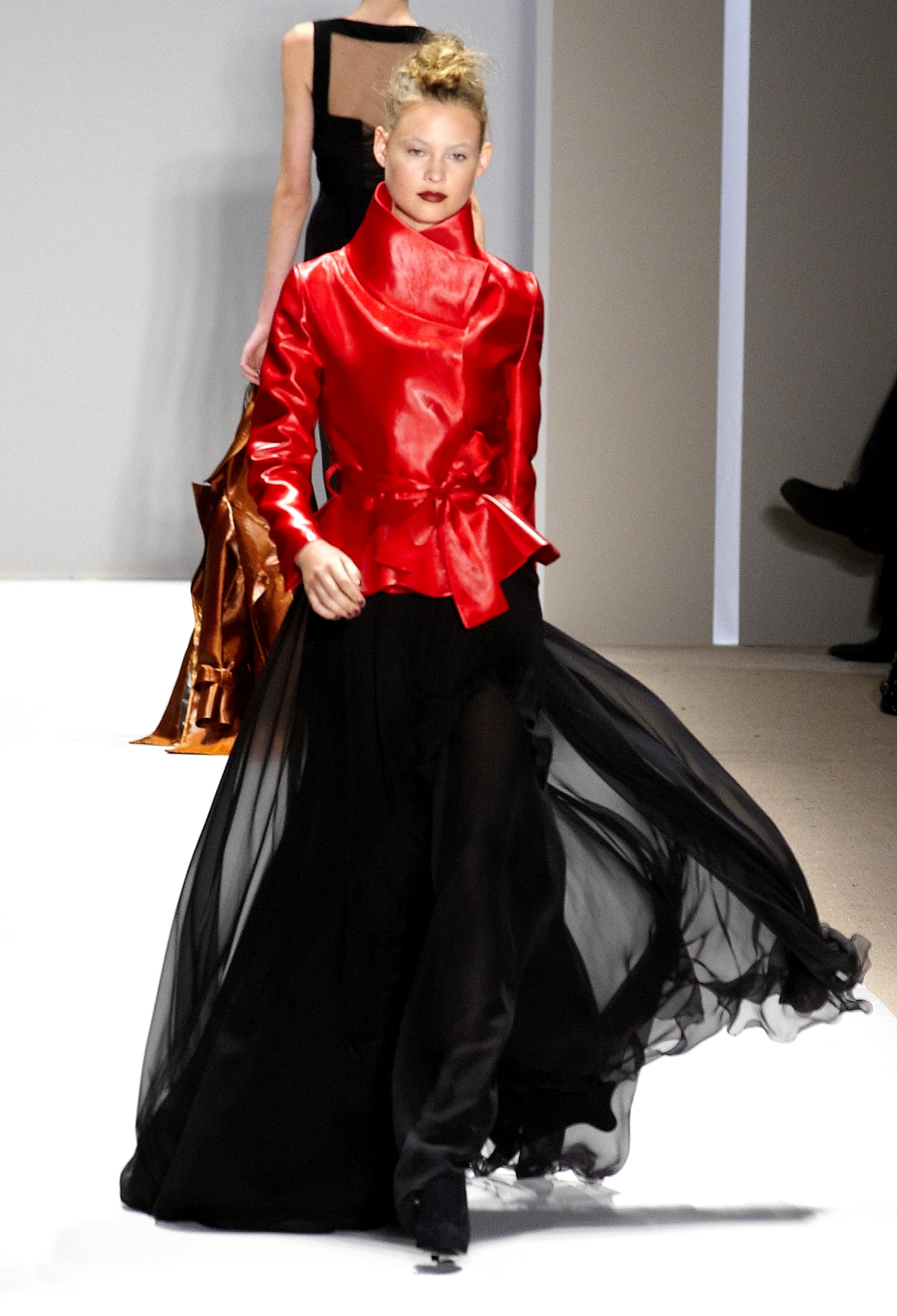 Behati Prinsloo for GEORGES CHAKRA in 2010